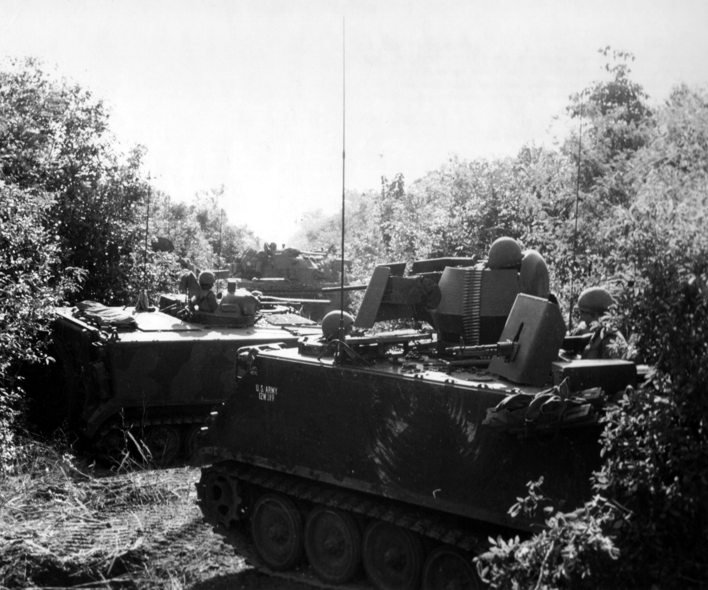 HERRINGBONE FORMATION ASSUMED BY 3d SQUADRON, 11TH ARMORED CAVALRY, DURING OPERATION CEDAR FALLS, This formation gave vehicles best all-round firepower when they were ambushed in a restricted area.